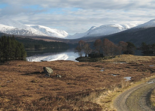 Loch Ossian Looking east over Loch Ossian. Aonach Beag group to the left and the Ben Alder hills to the right.